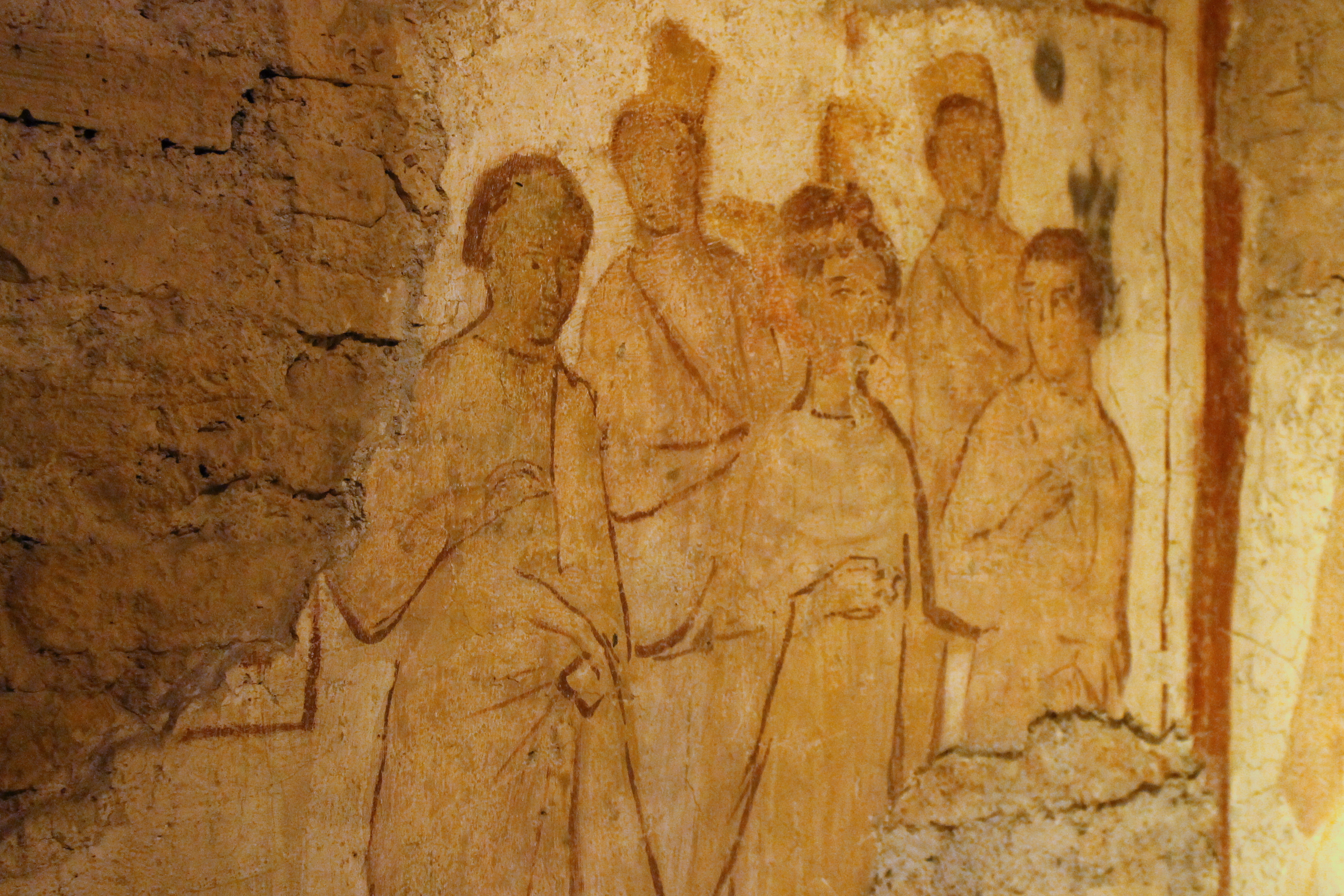 A fourth-century fresco, believed to depict the arrest of Sts. Crispus, Crispinianus, and Benedicta. From the excavations under the Basilica of Saints John and Paul on the Caelian Hill in Rome.